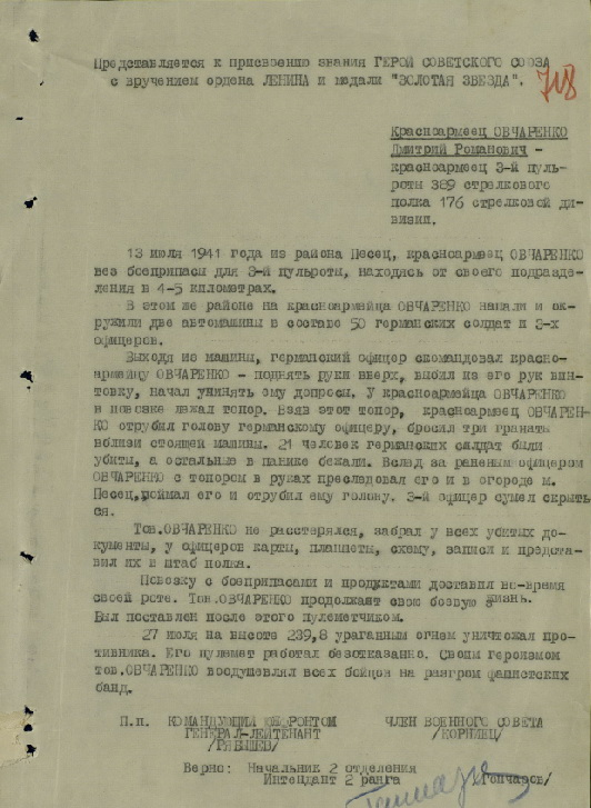 The submission for assignment of the rank of the Hero of the Soviet Union to Dmitry Ovcharenko